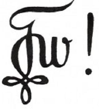 Zirkel of the fraternity K.St.V. Winfridia Göttingen